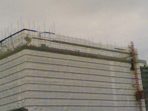 Demolition of Wettern House, Croydon. Source: Matthew Thompson